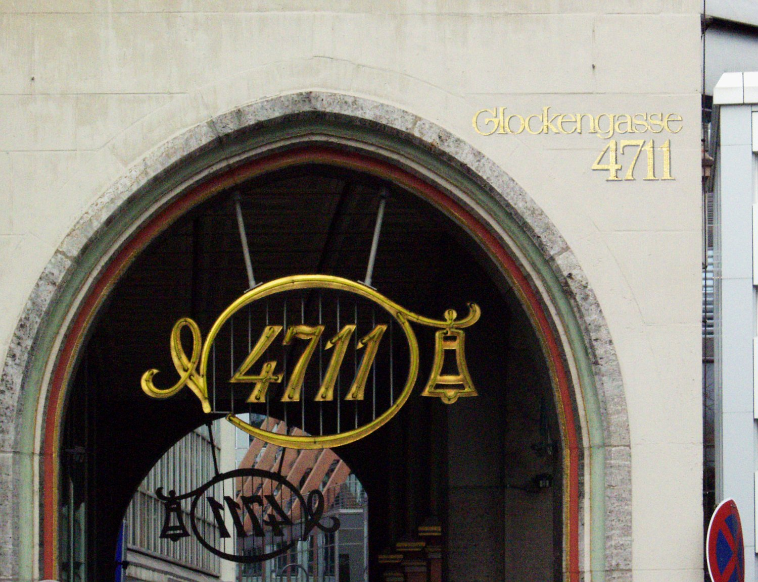 Detail of the parent house of 4711, Cologne, Germany